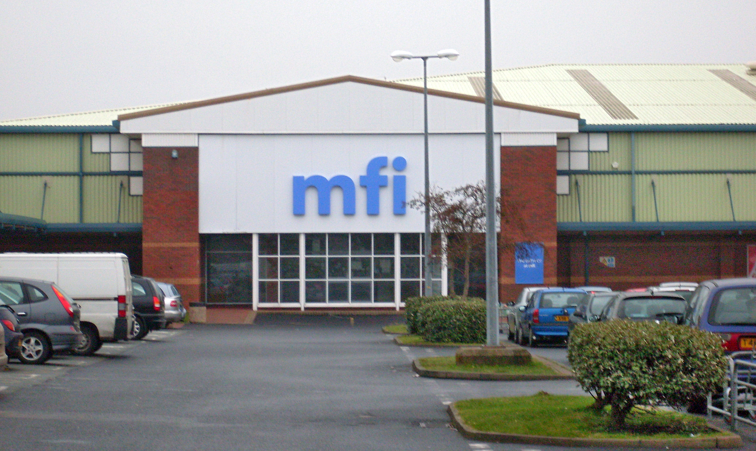 A closed MFI store in Kew Retail Park, Southport, after it closed all it's stores on 19th December. Just next door to here another chain, Allied Carpets, also went into administration on 17 July 2009.